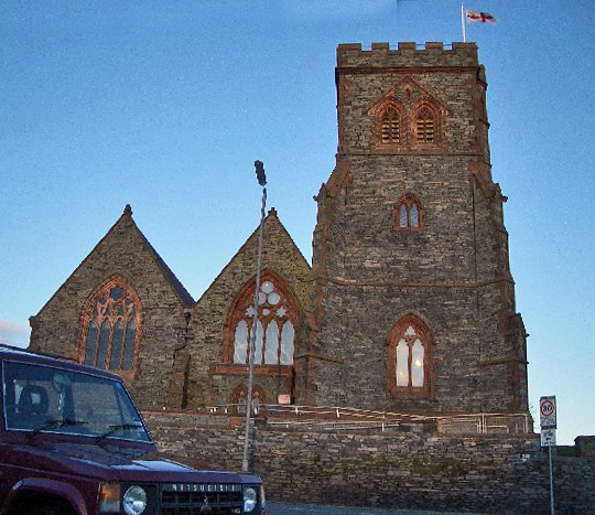 St George's parish church, Barrow-in-Furness, Cumbria, seen from the southwest from St George's Square car park